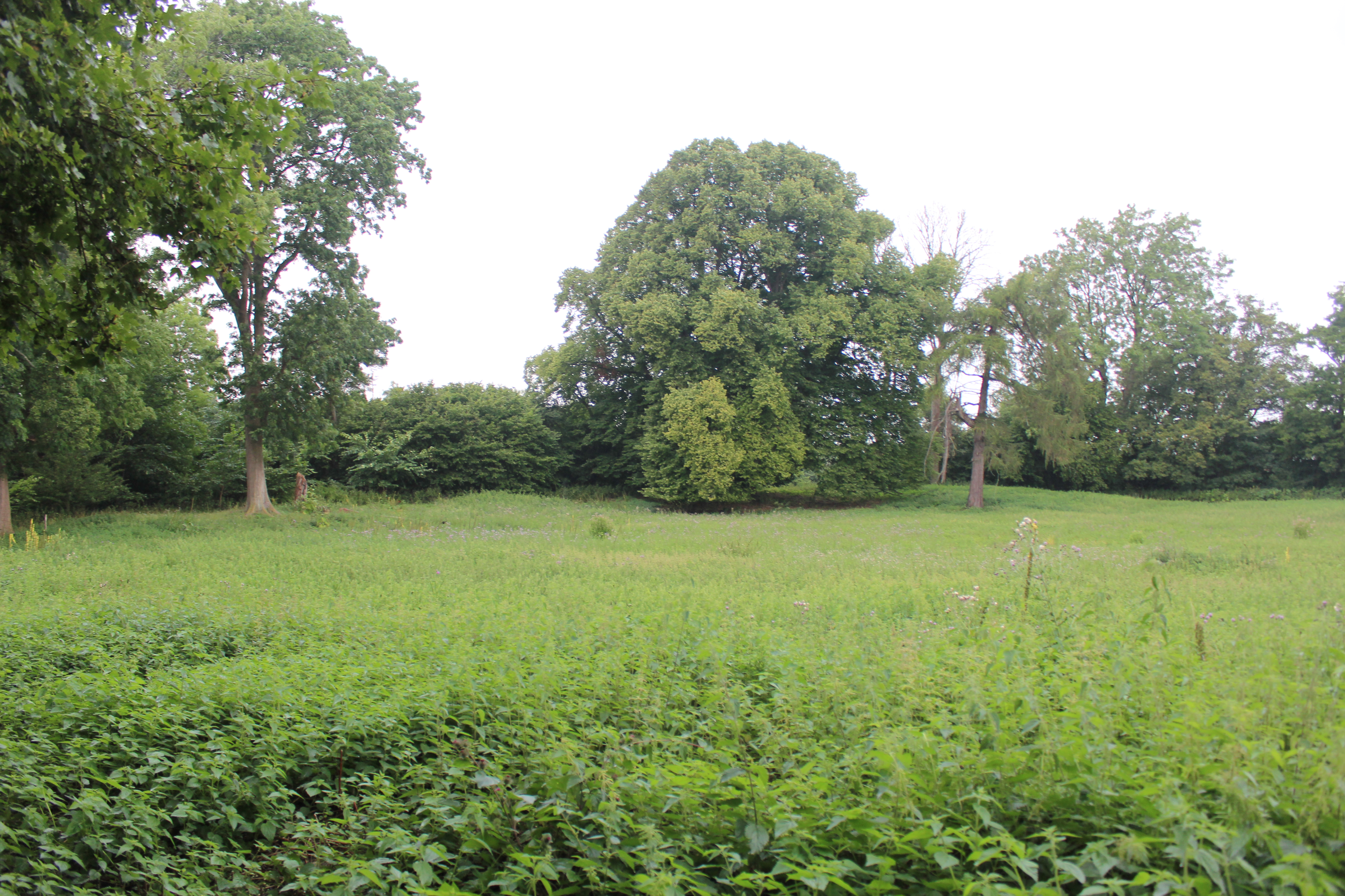 Area of the former castle Refshaleborg, which was destroyed in 1256.